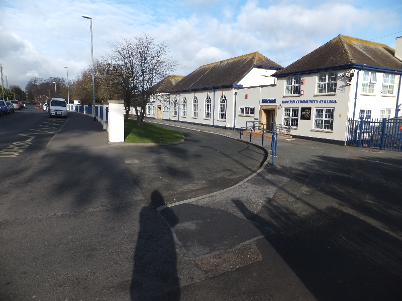 Dawlish Community College